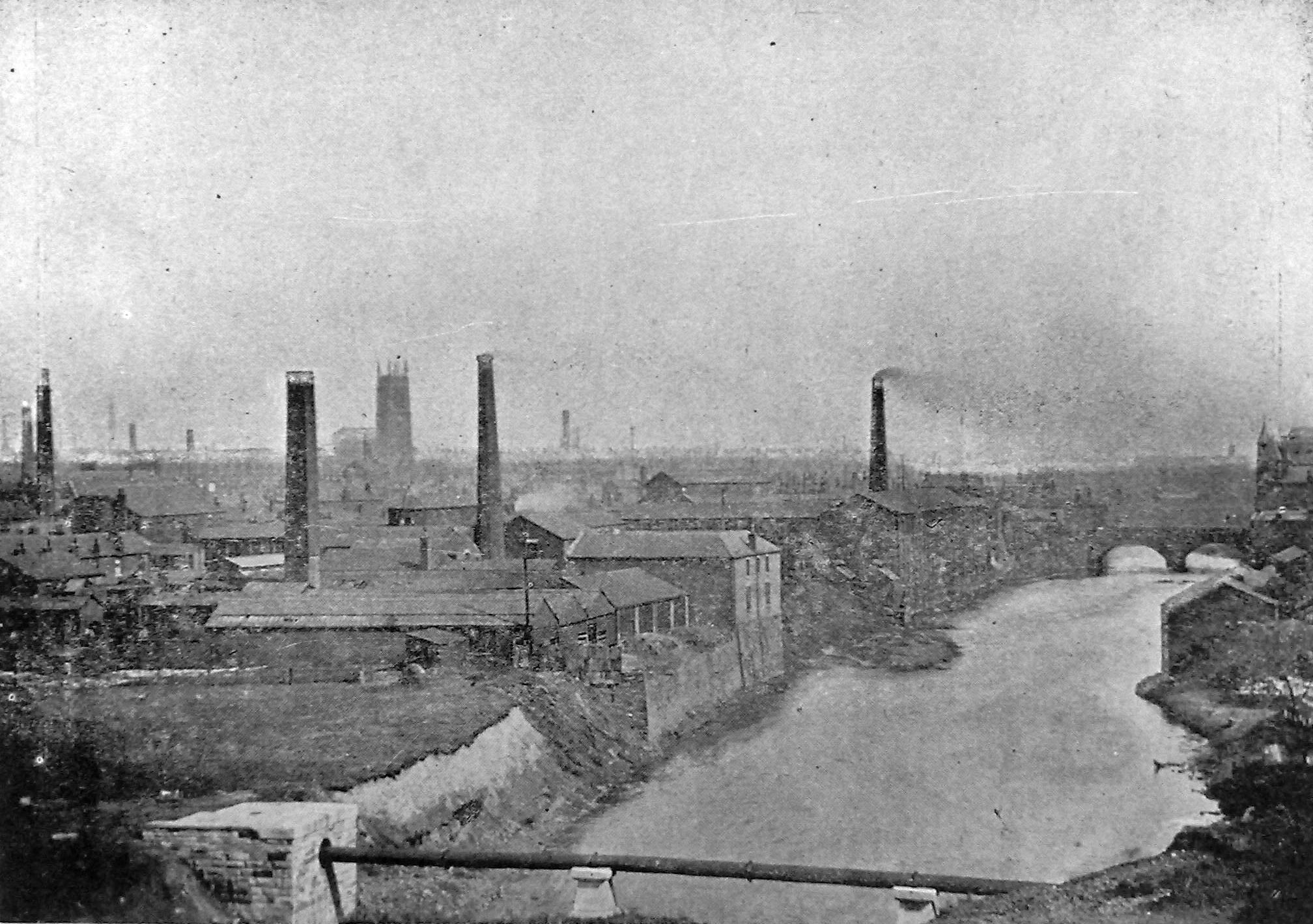 Looking east into Radcliffe, 1902